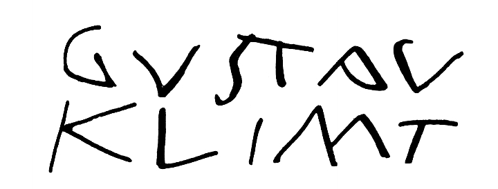 This signature is believed to be ineligible for copyright and therefore in the public domain because it falls below the required level of originality for copyright protection both in the United States and in the source country (if different). In this case, the source country (e.g. the country of nationality of the signatory) is believed to be Austria. Note that this tag cannot be used on all signatures, as not all signatures are copyright-free. See Commons:When to use the PD-signature tag for an explanation of when the tag may be used. Gustav Klimt (1862–1918) Alternative names Gustave Klimt; Klimt; gustav klimt; klimt gustav; g. klimt; gust. klimtDescriptionAustrian painterDate of birth/death 14 July 1862 6 February 1918Location of birth/death Baumgarten bei Wien ViennaWork location Maubeuge; ViennaAuthority control : Q34661 VIAF: 7399081 ISNI: 0000 0001 2119 2863 ULAN: 500030531 LCCN: n79039898 NLA: 35275496 WorldCat creator QS:P170,Q34661